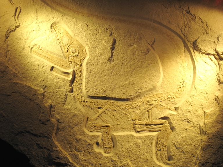 Theropode